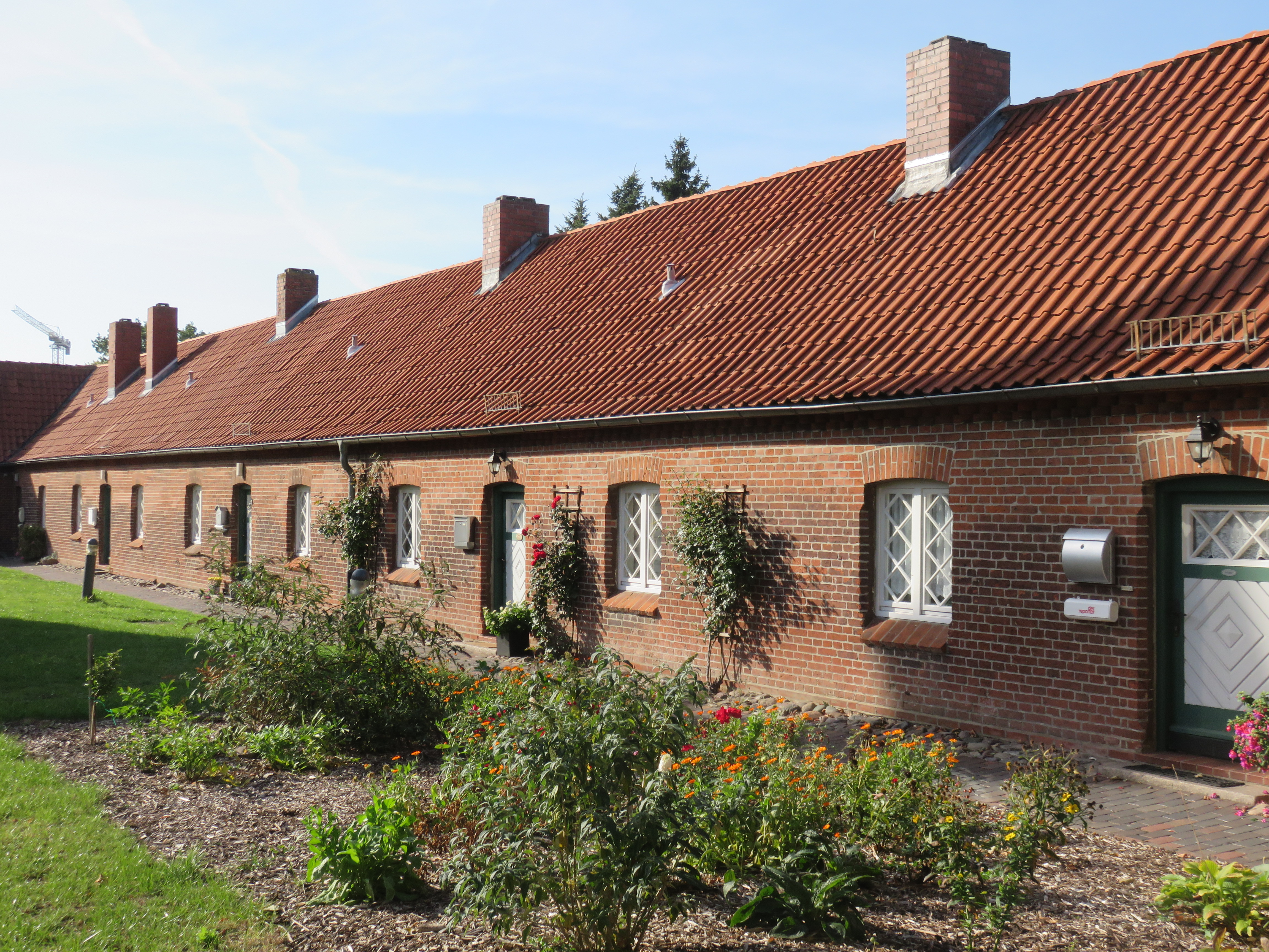 Hospital zum Heiligen Geist in Neustadt in Holstein